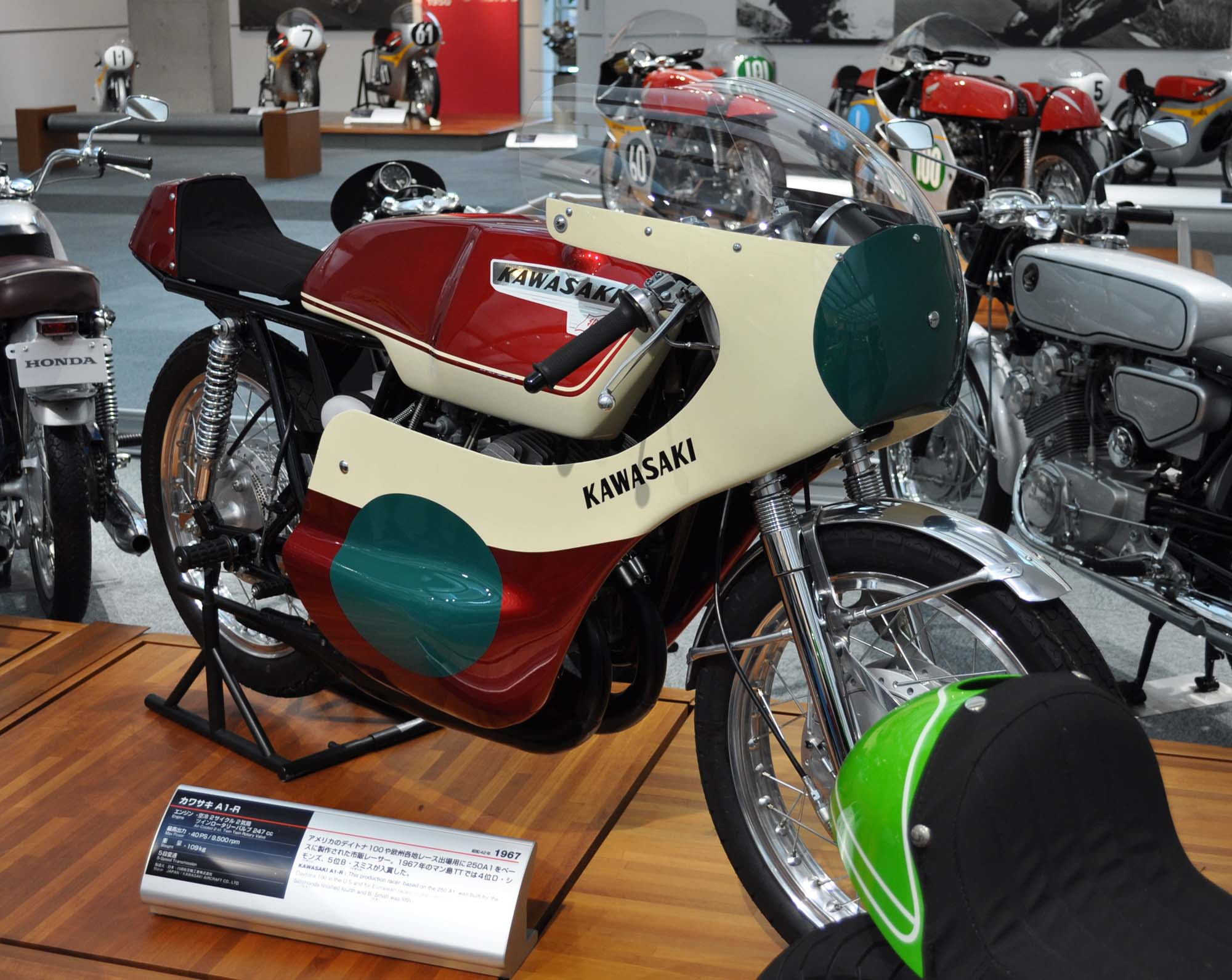 Kawasaki A1-R (1967)